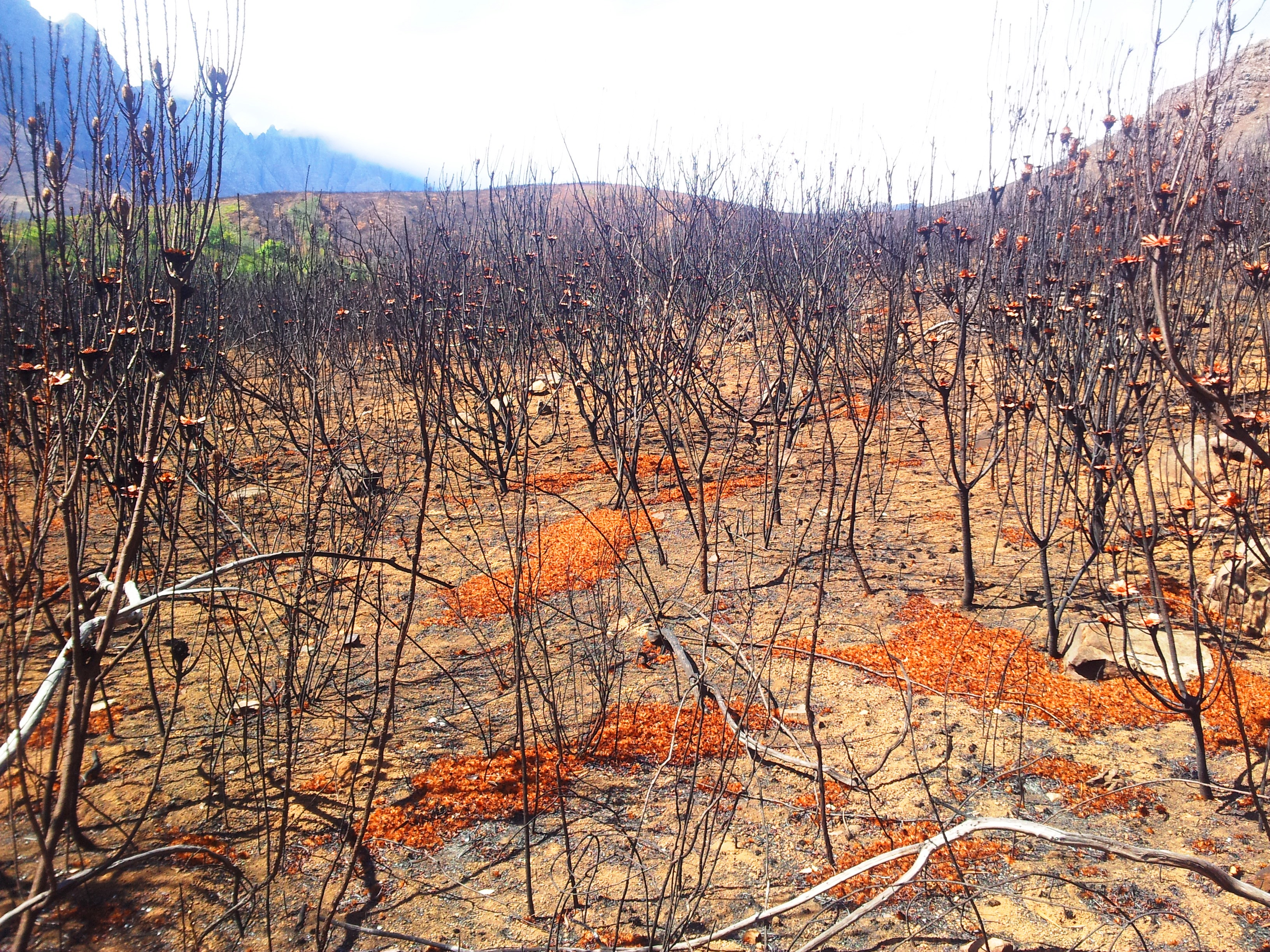 Fynbos after Fire - dead proteas and orange protea seeds - Assegaibosch Jonkershoek South Africa